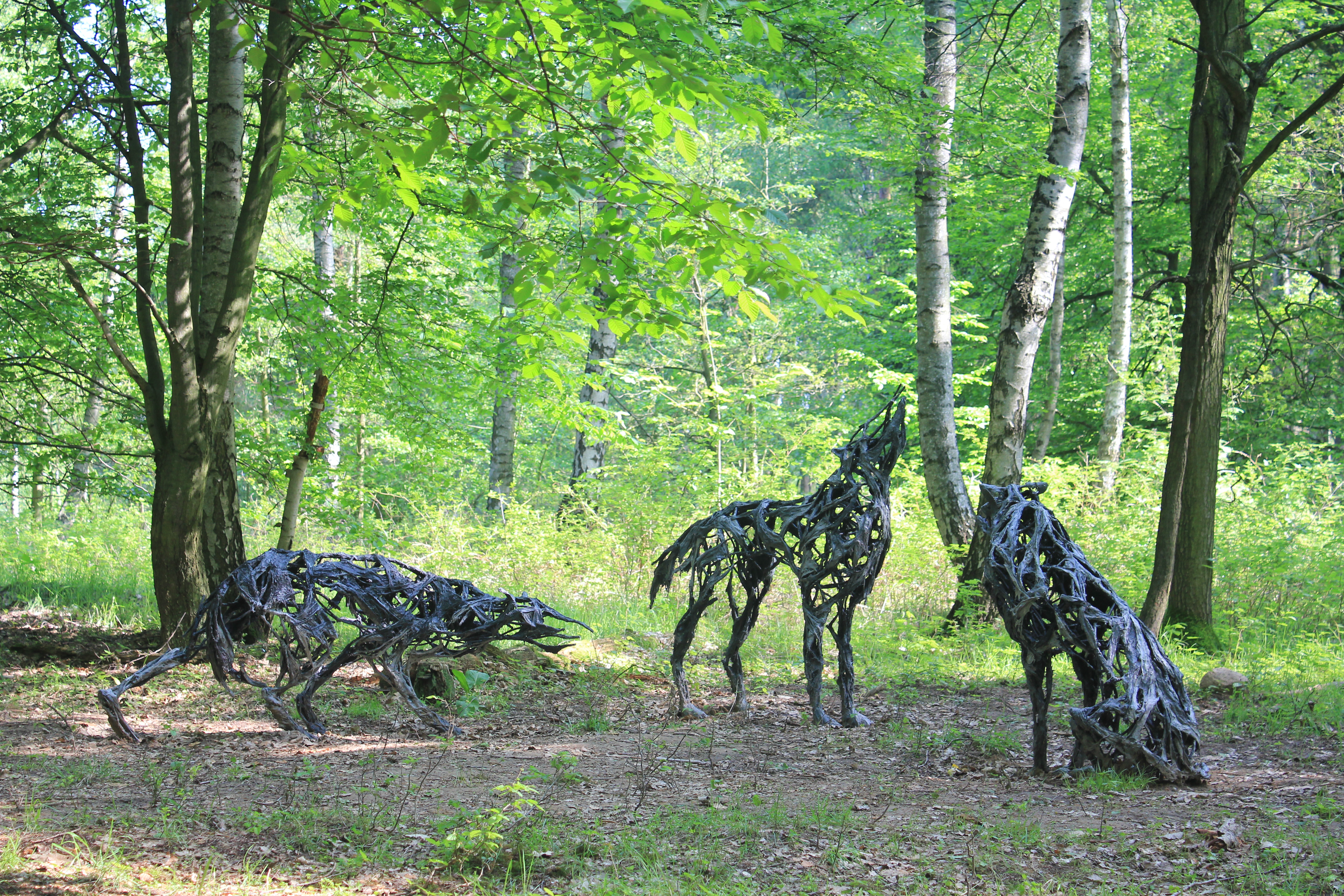 Sculpture Trail Hoher Fläming: "Wolves" by Marion Burghouwt